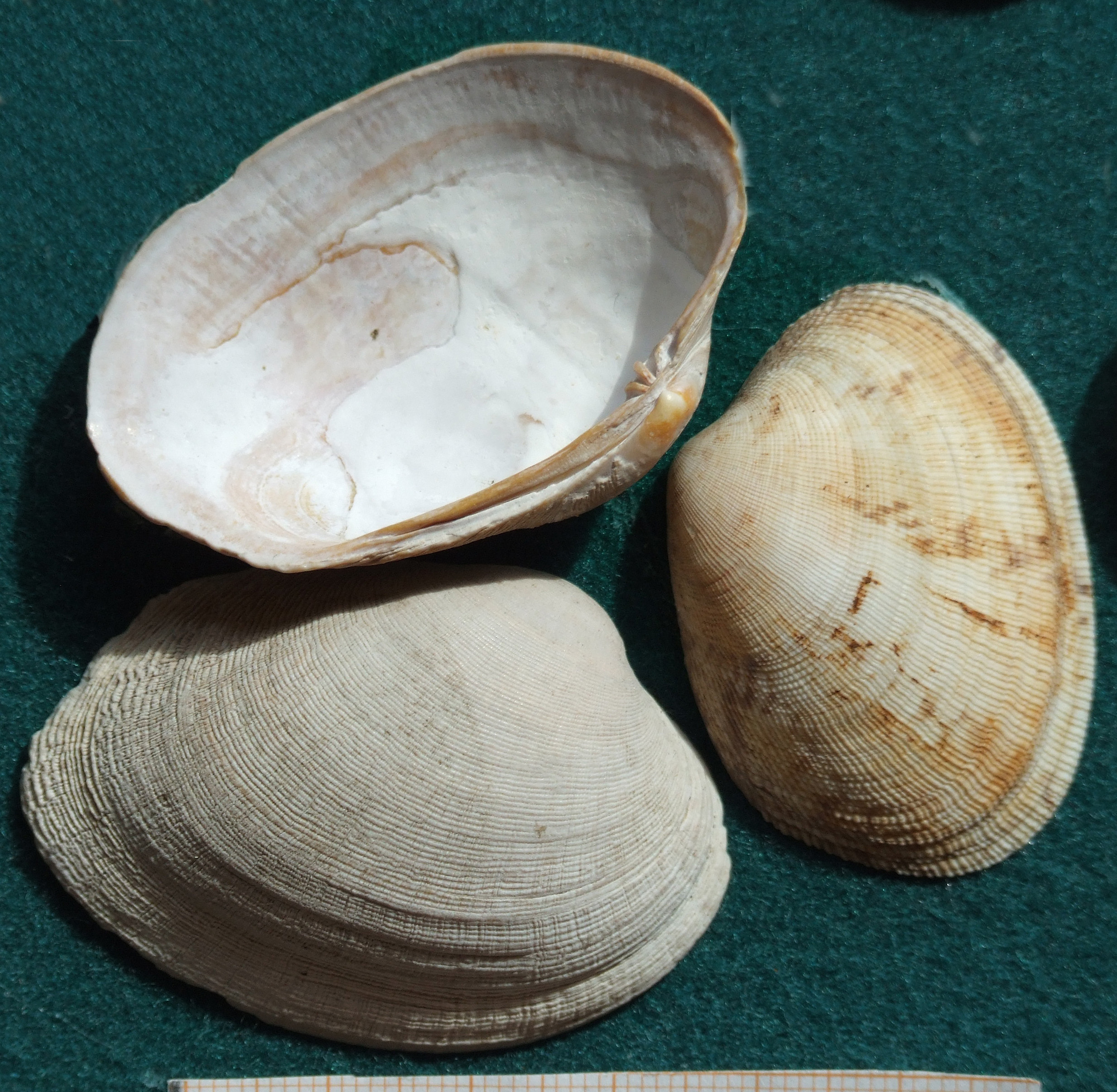 Shells of the Pullet Carpet Shell (Venerupis corrugata, syn. Venerupis pullastra (Montagu, 1803)), Sylt, Germany